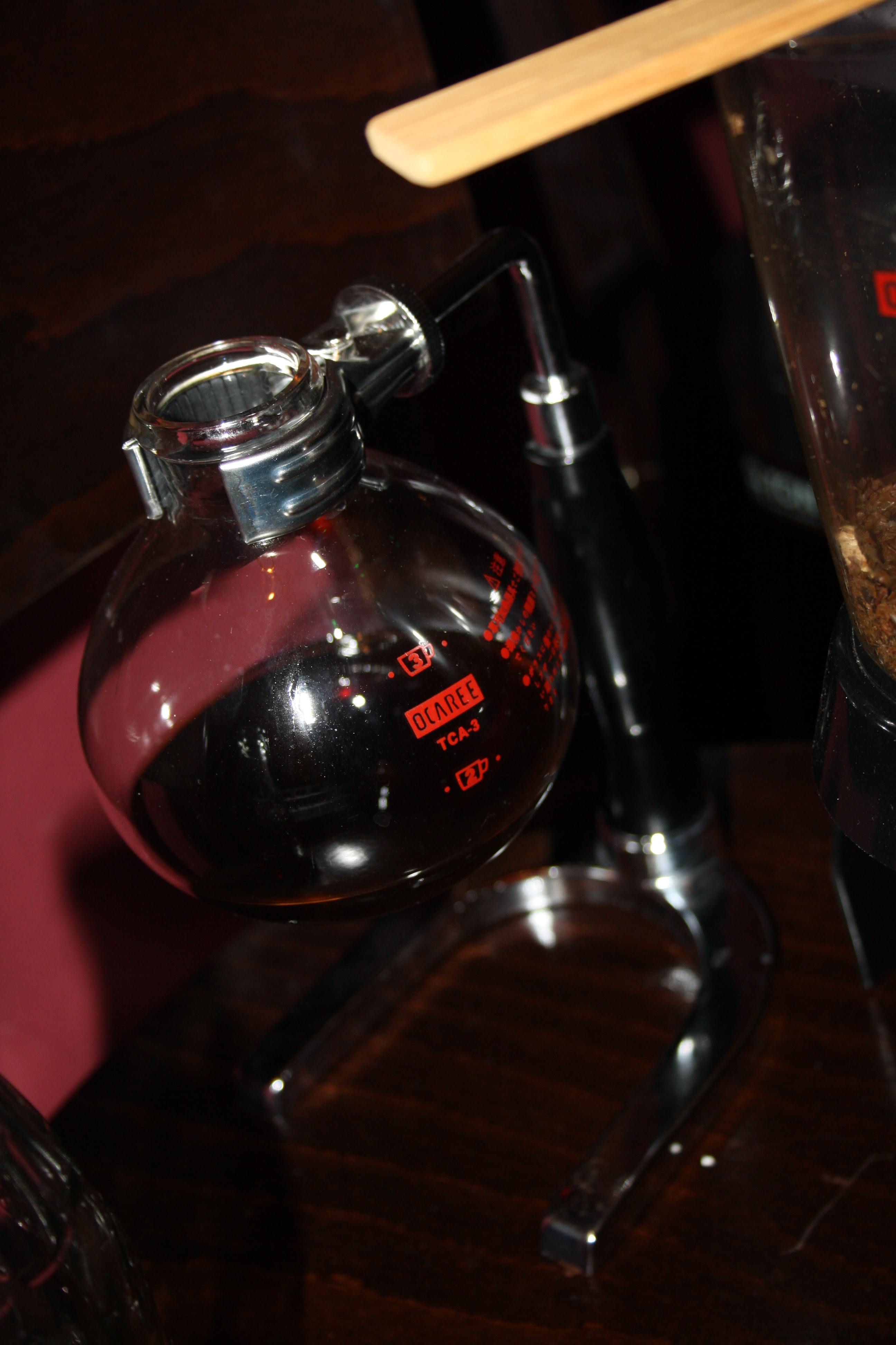 Vacuum coffee maker with coffee.